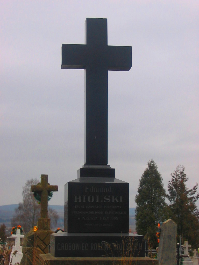 Family grave of Hiolski family (Edmund Hiolski) in Berezhany, Ternopil region, western Ukraine.